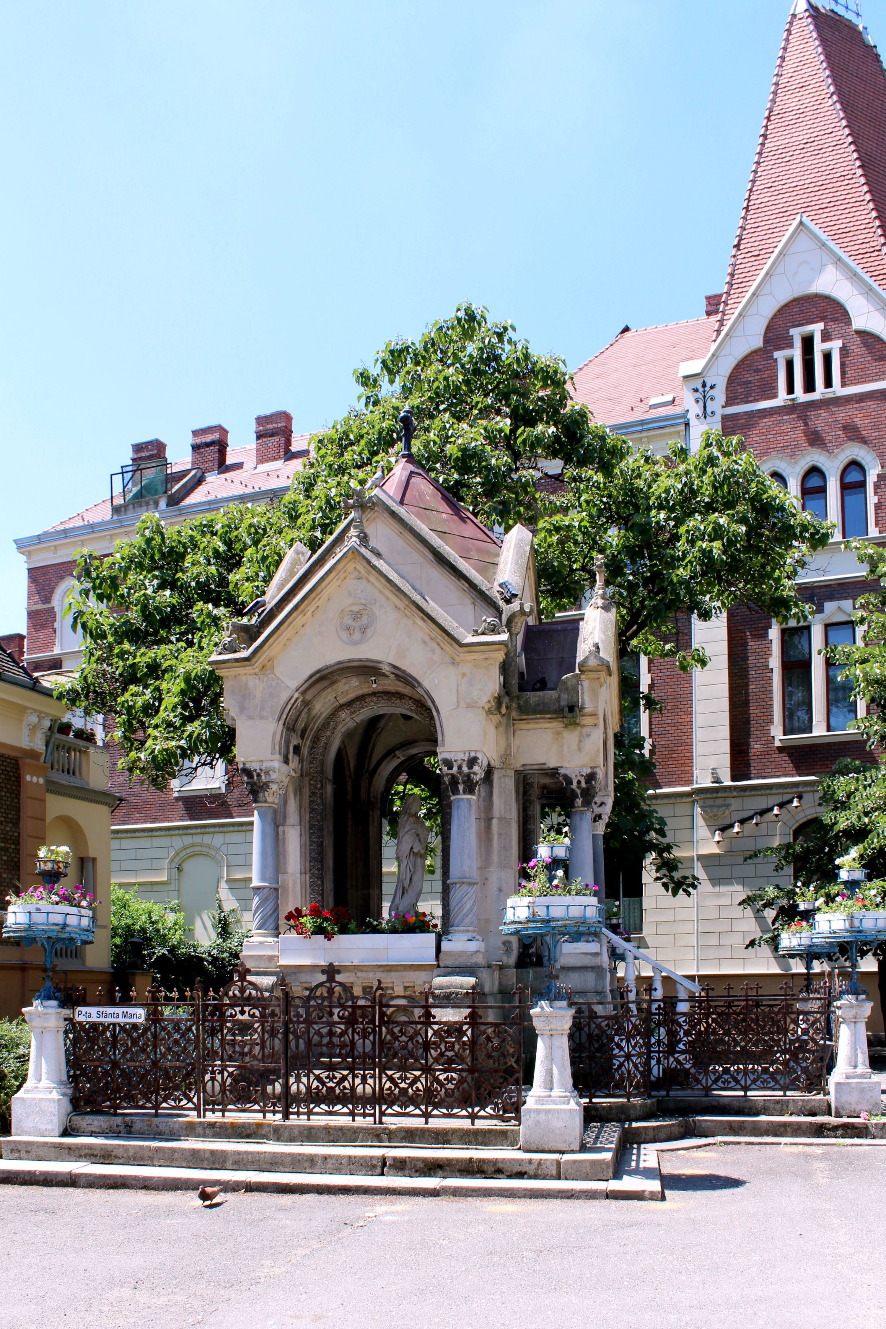 St. Mary Monument in St. Mary Square, Timisoara